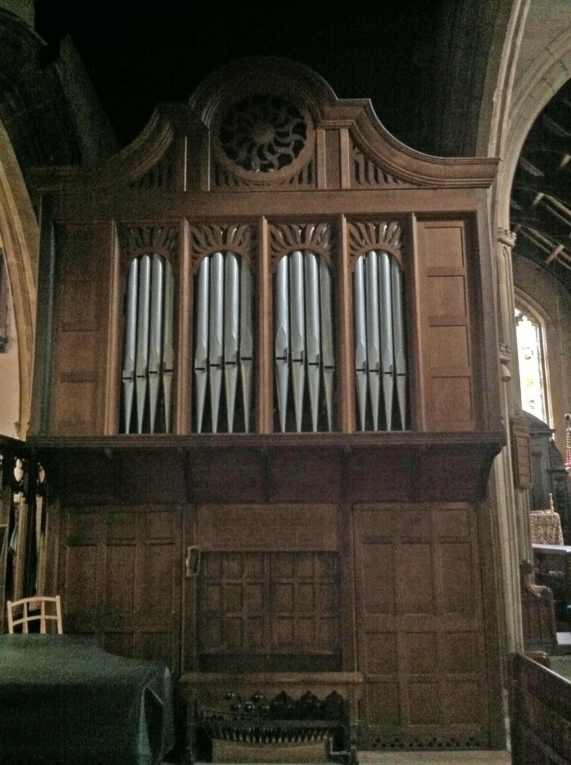 The organ, St. Helen's Church, Ashby-de-la-Zouch